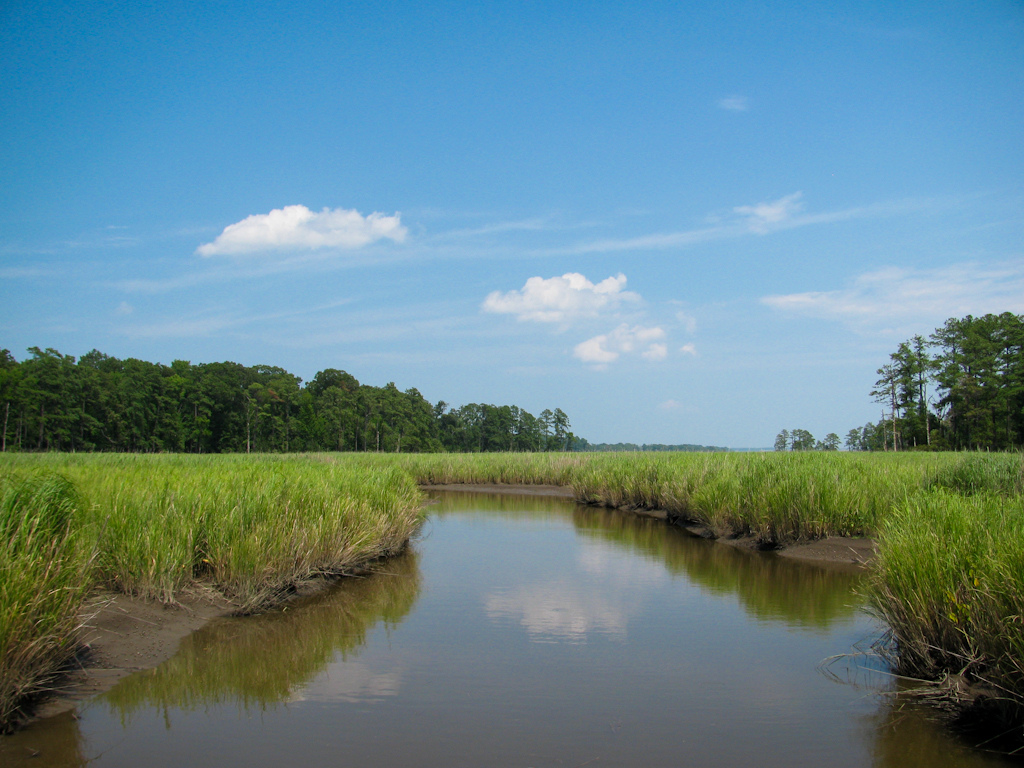 Salt marshes along Jamestown Island, Virginia, part of Colonial National Historical Park